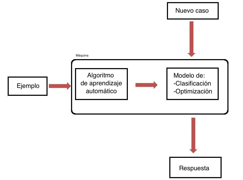 Aprendizaje automático